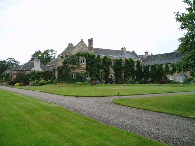 Monteviot House — the mansion is the ancestral home of the Marquess of Lothian. The gardens are occasionally open to the public — as was the house on the day of my visit although it is usually private.